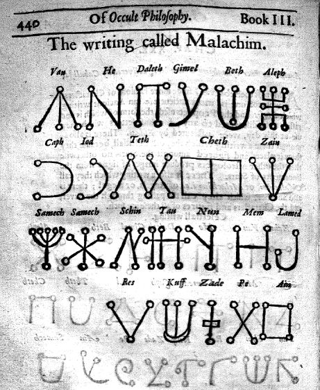 Heinrich Cornelius Agrippa's Malachim Script, from Of Occult Philosophy, 1538, page 440